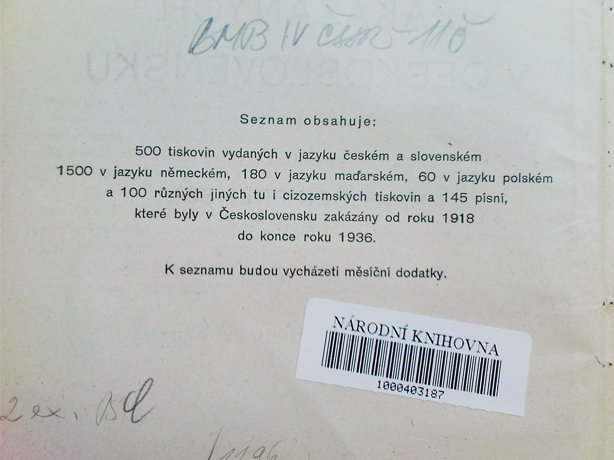 List of in Czechoslovakia forbidden books and songs (1937)